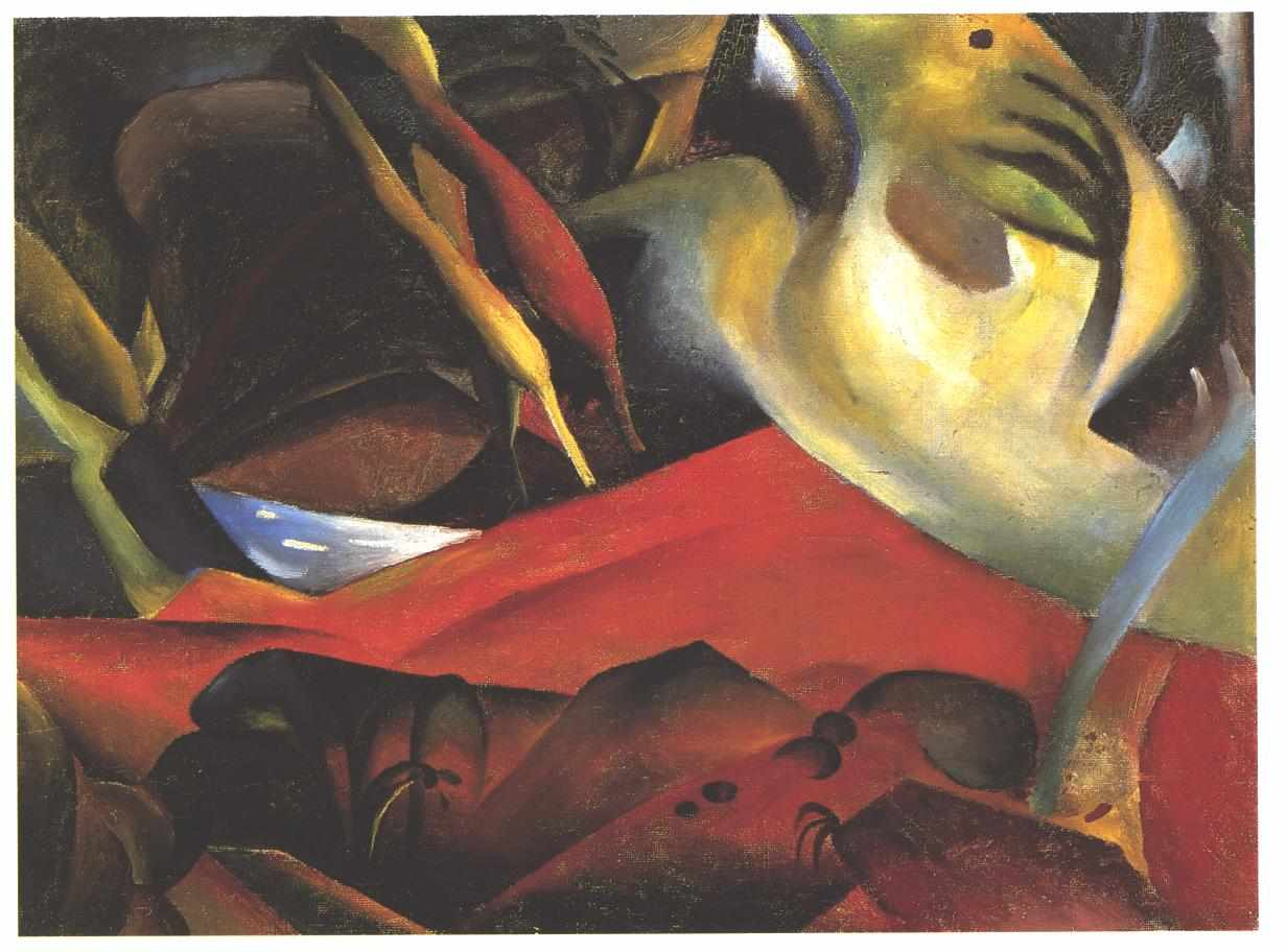 The tempest (The Storm)label QS:Lde,"Der Sturm" label QS:Len,"The tempest (The Storm)"